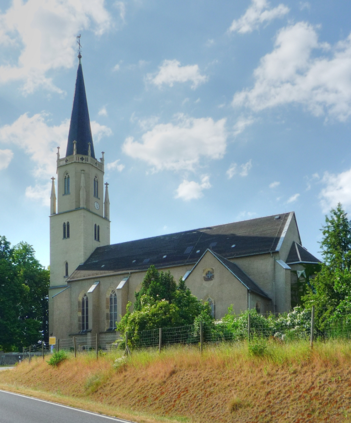 St. Urban church in Wantewitz